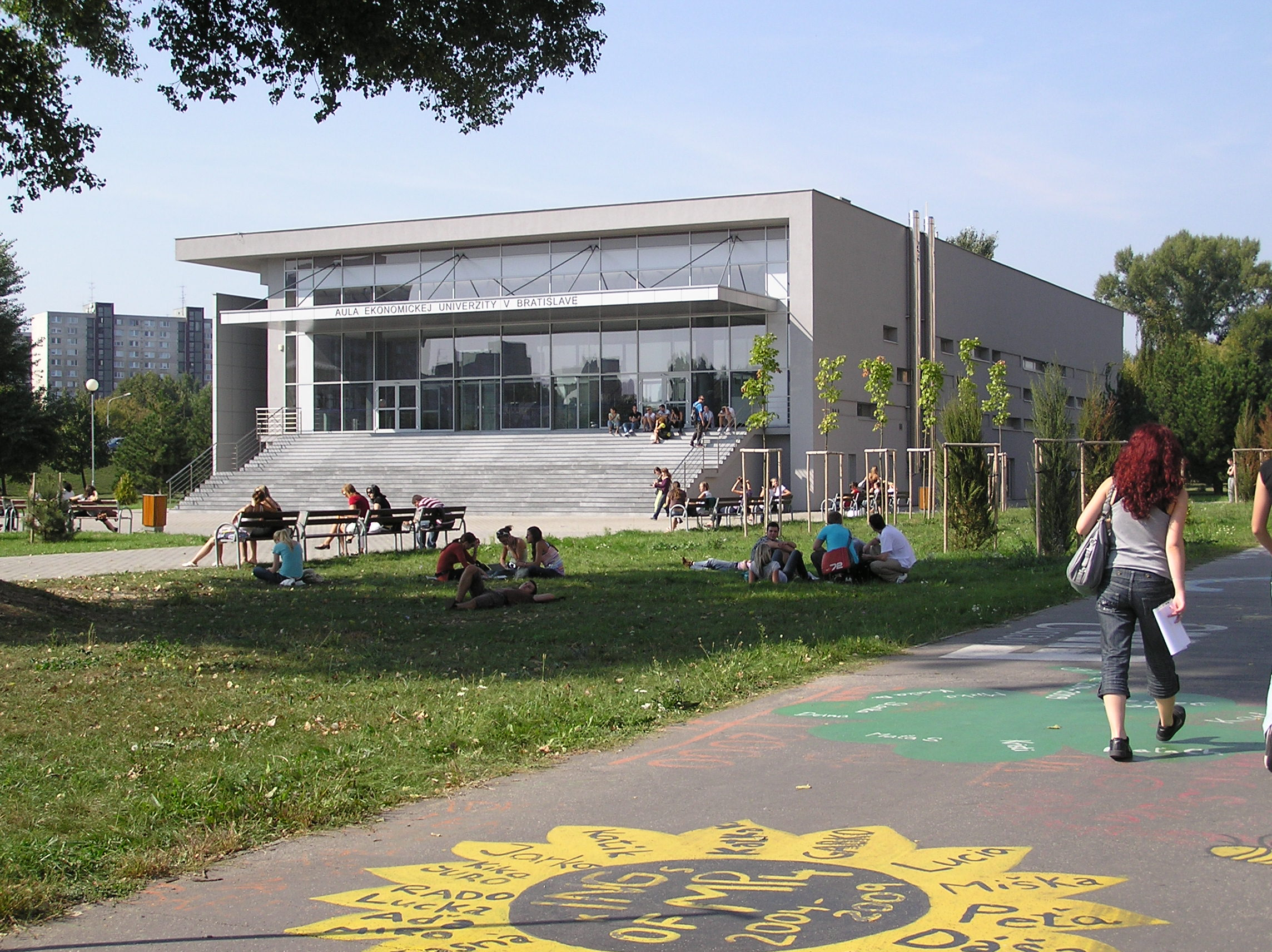 University Hall of the University of Economics in Bratislava at Dolnozemská cesta 1, Bratislava